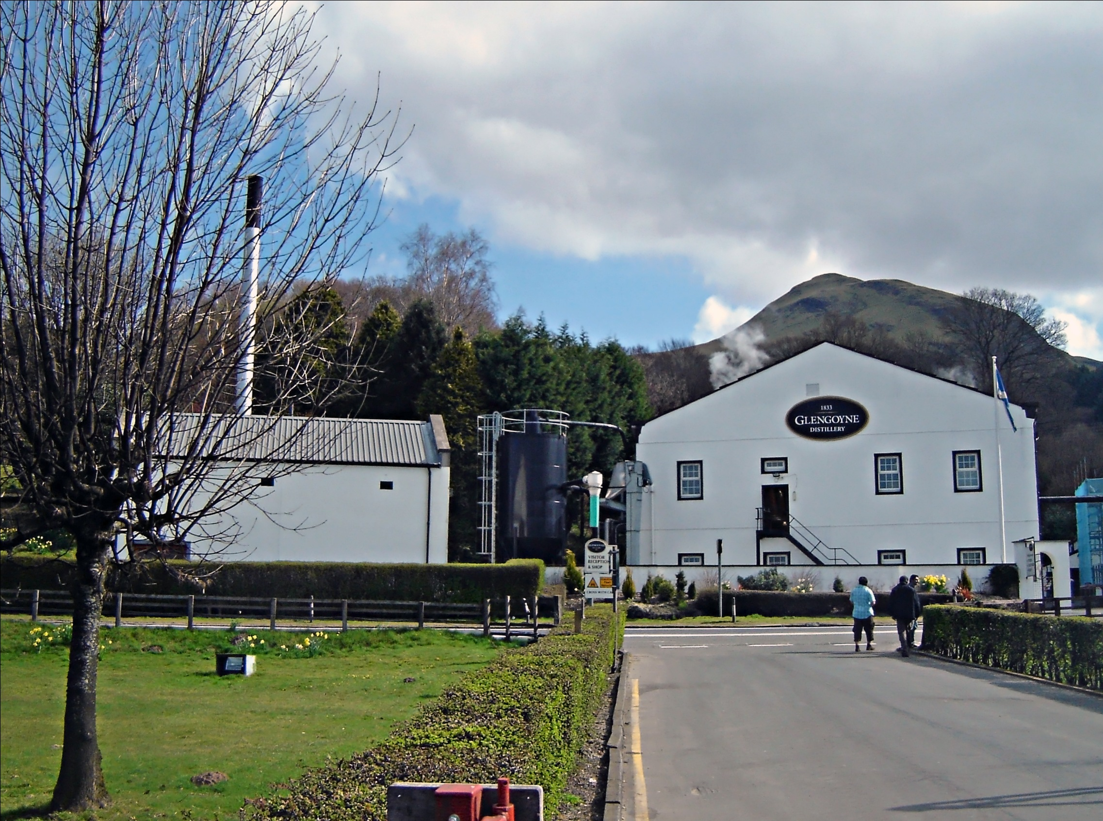 Glengoyne Distillery, Dumgoyne is reputed to be the most beautiful distillery in Scotland